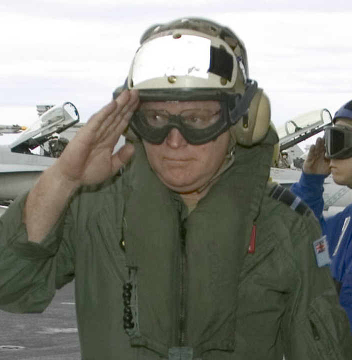 CORAL SEA (July 17, 2007) - Geoffrey David Shepherd, Royal Australian Air Force Air Marshal, salutes as he passes side boys aboard the USS Kitty Hawk (CV 63). Shepherd visited Kitty Hawk for a flight in an F/A-18F Super Hornet assigned to the “Diamondbacks” of Strike Fighter Squadron (VFA) 102. Australia recently purchased 24 similar Super Hornets. Kitty Hawk is nearly two months into her summer deployment. The ship recently finished a port visit to Sydney and is operating in the Coral Sea. U.S. Navy photo by Mass Communication Specialist 2nd Class Jarod Hodge (RELEASED)